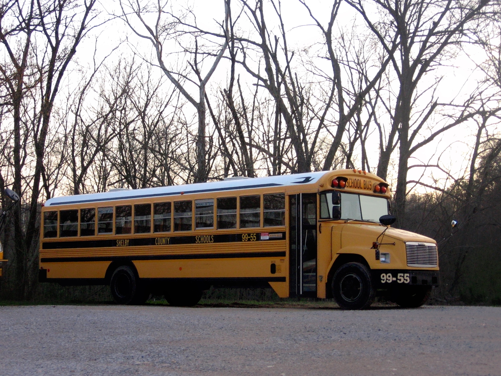 1999 Blue Bird Conventional school bus (on Freightliner FS-65 chassis) operated by the Shelby County, Alabama Board of Education in Helena, Alabama.